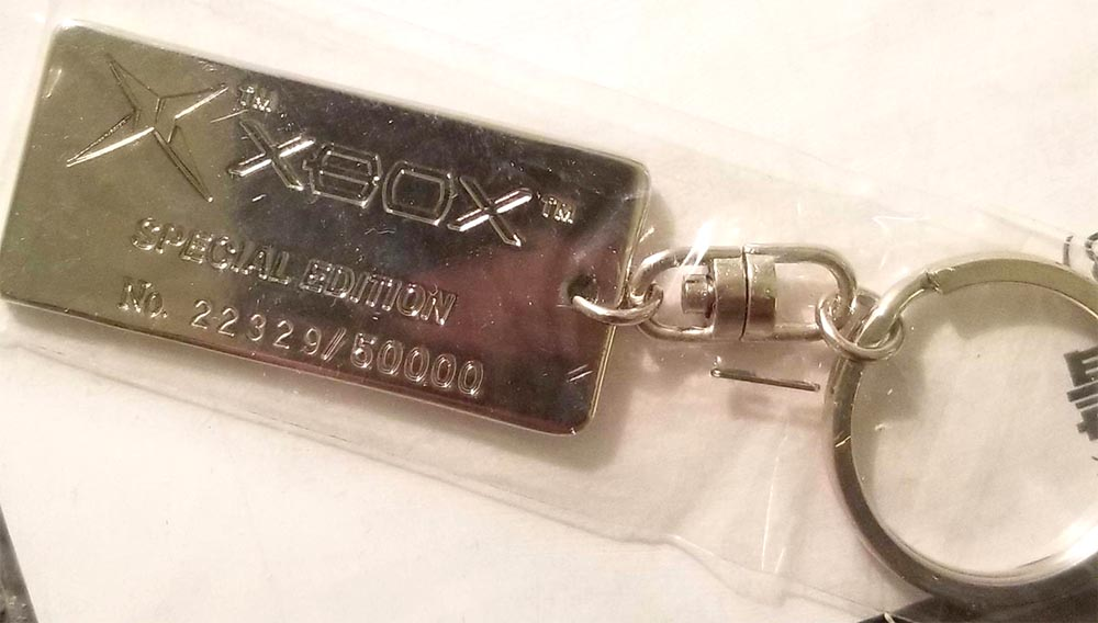 Photo showing a special keychain included with Japanese Skeleton/Smoke special edition Xbox consoles. The keychains show a production number, which indicates which of the 50,000 units that particular Xbox was.